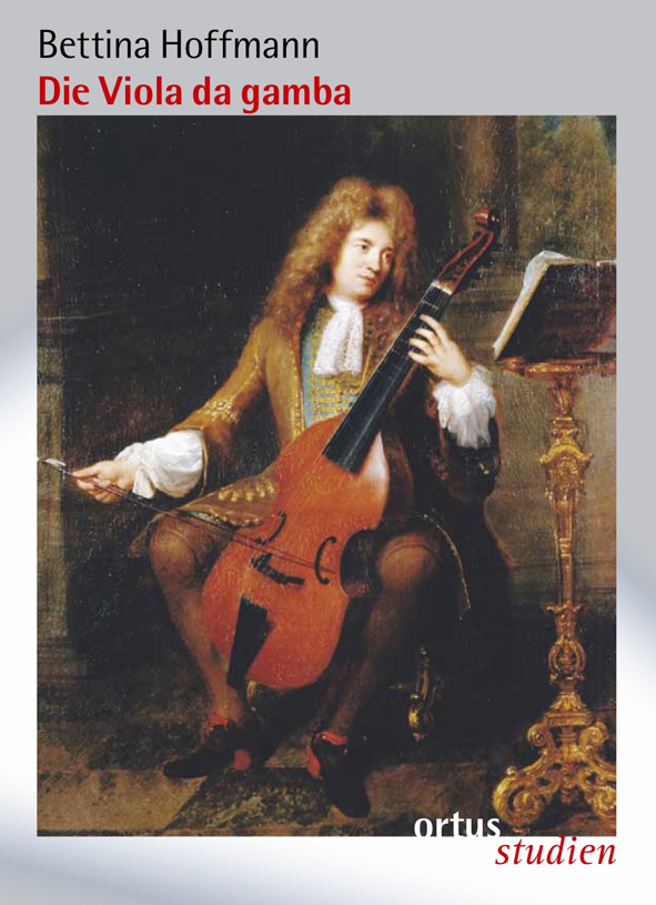 Bettina Hoffmann, "Die Viola da Gamba", Ortus Verlag